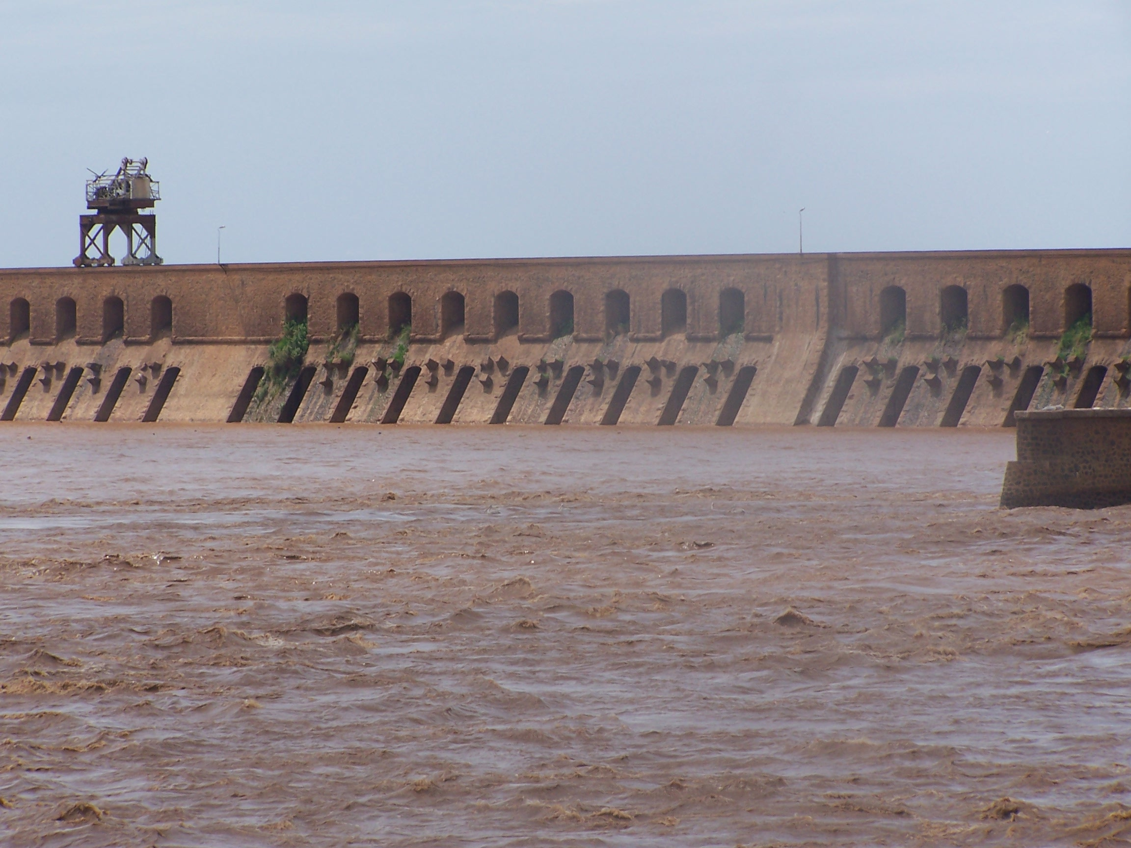 Sennar Dam